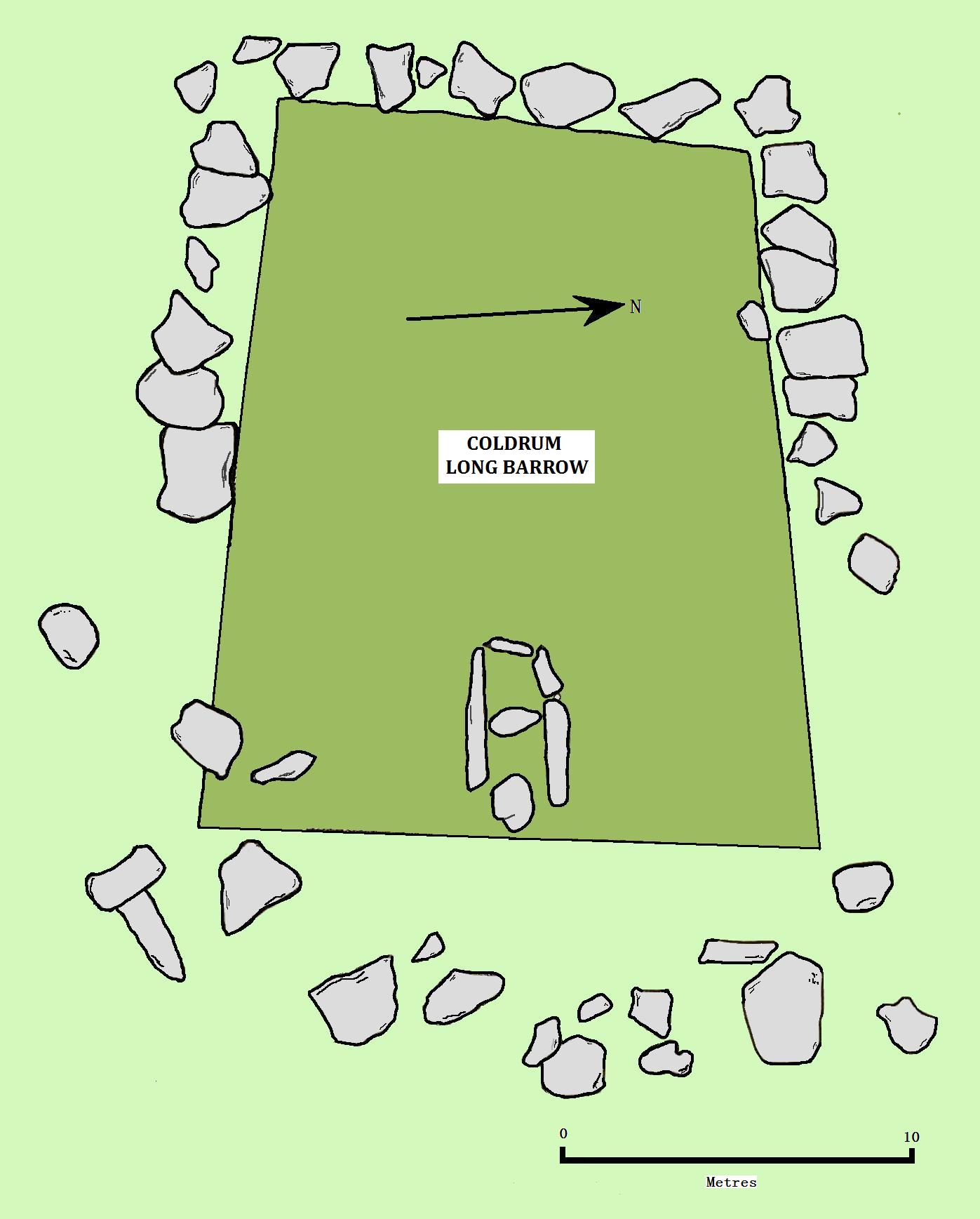 A simple plan of the Early Neolithic chambered tomb of Coldrum Long Barrow in Kent, England. Created by uploader based upon example by Ashbee 1998 (p.12).